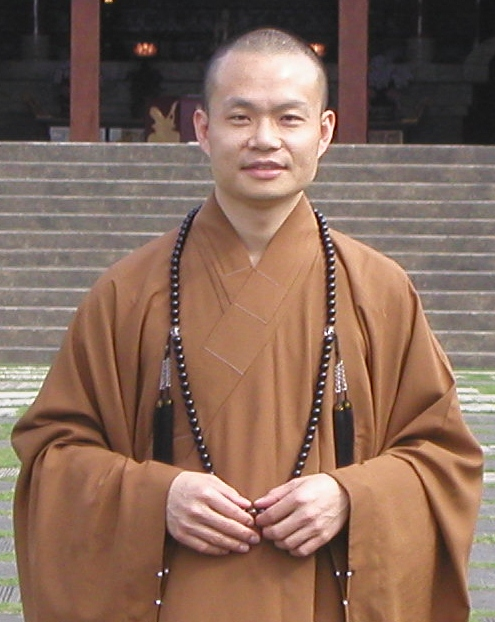 Venerable Hsin Pei, Abbot Emeritus of Fo Guang Shan